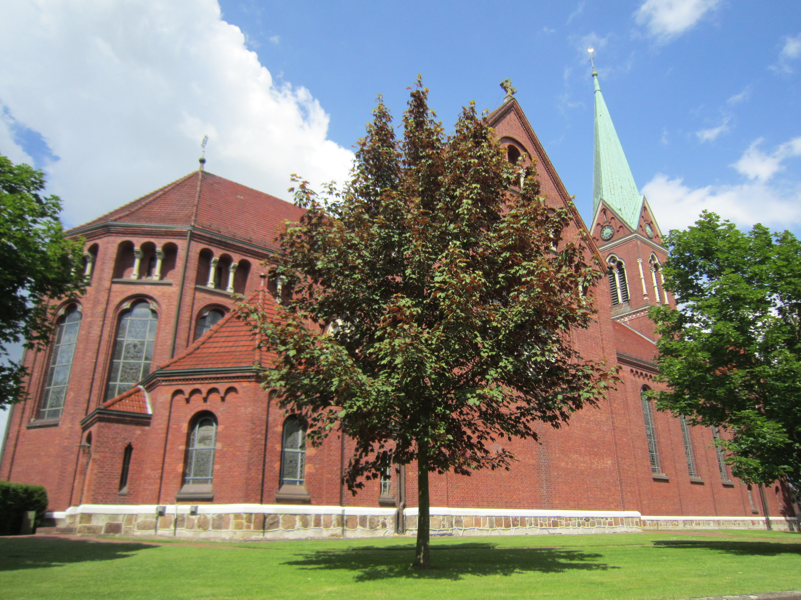 St. Gorgonius Church in Goldenstedt